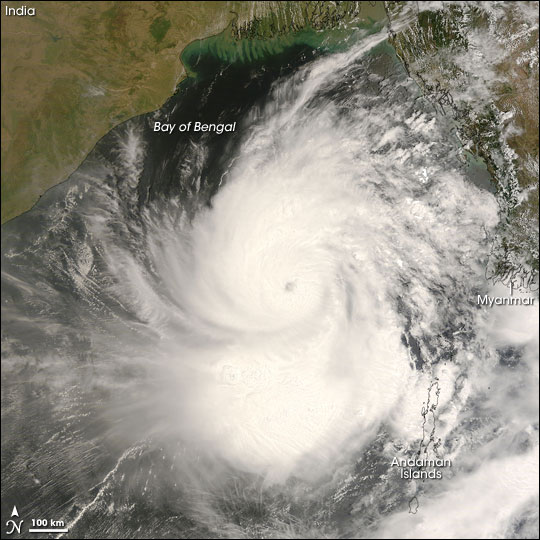 Cyclone Nargis on May 1